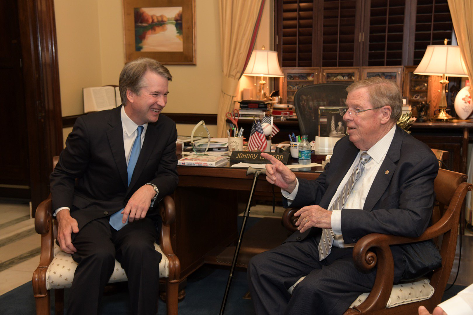 Enjoyed meeting with #SCOTUS nominee Judge Brett Kavanaugh today. He is eminently well-qualified to serve on the Supreme Court, and I appreciate his strong commitment to our Constitution and the rule of law.